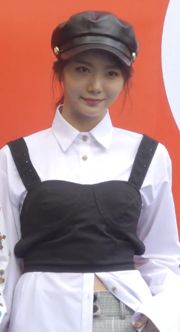 181018 '2019 S:S 헤라서울패션위크' 빅팍 컬렉션